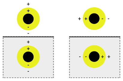 s-polarization and p-polarization diagram